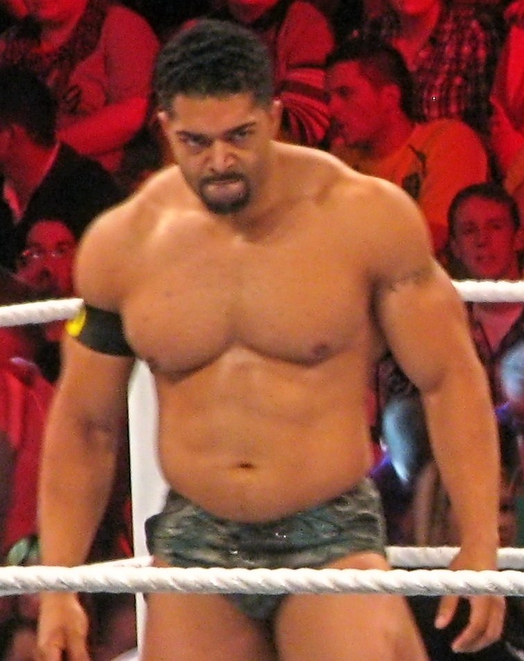 David Otunga during a match. Cropped from original.